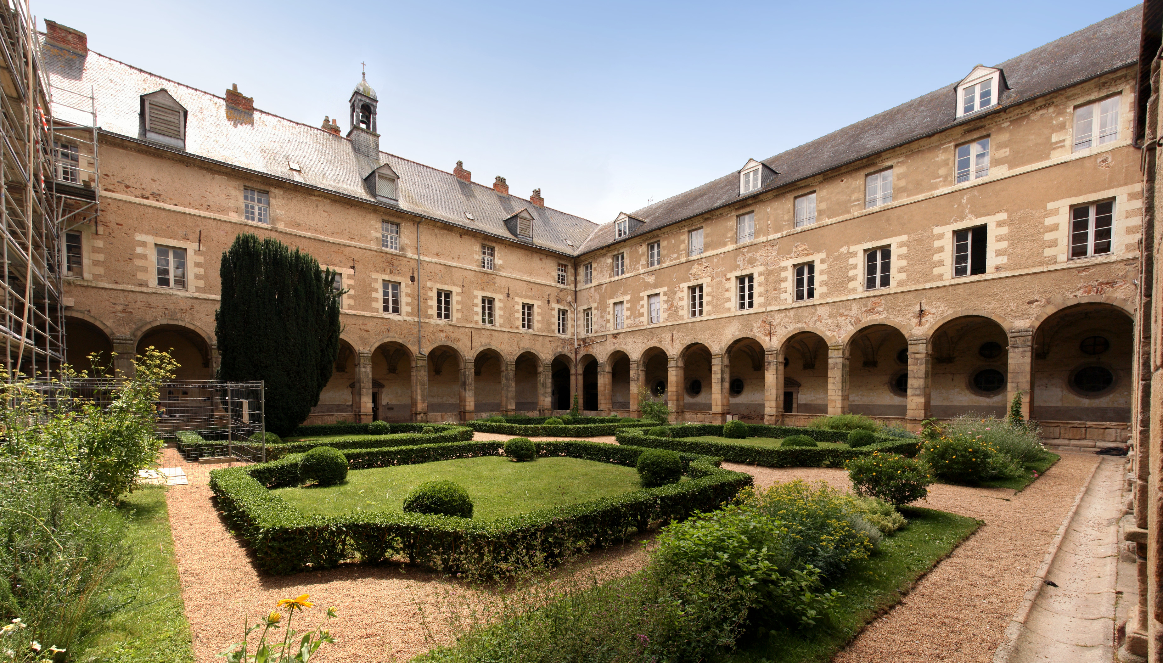 Cloister of Saint-Sauveur abbey in Redon, Brittany, France.